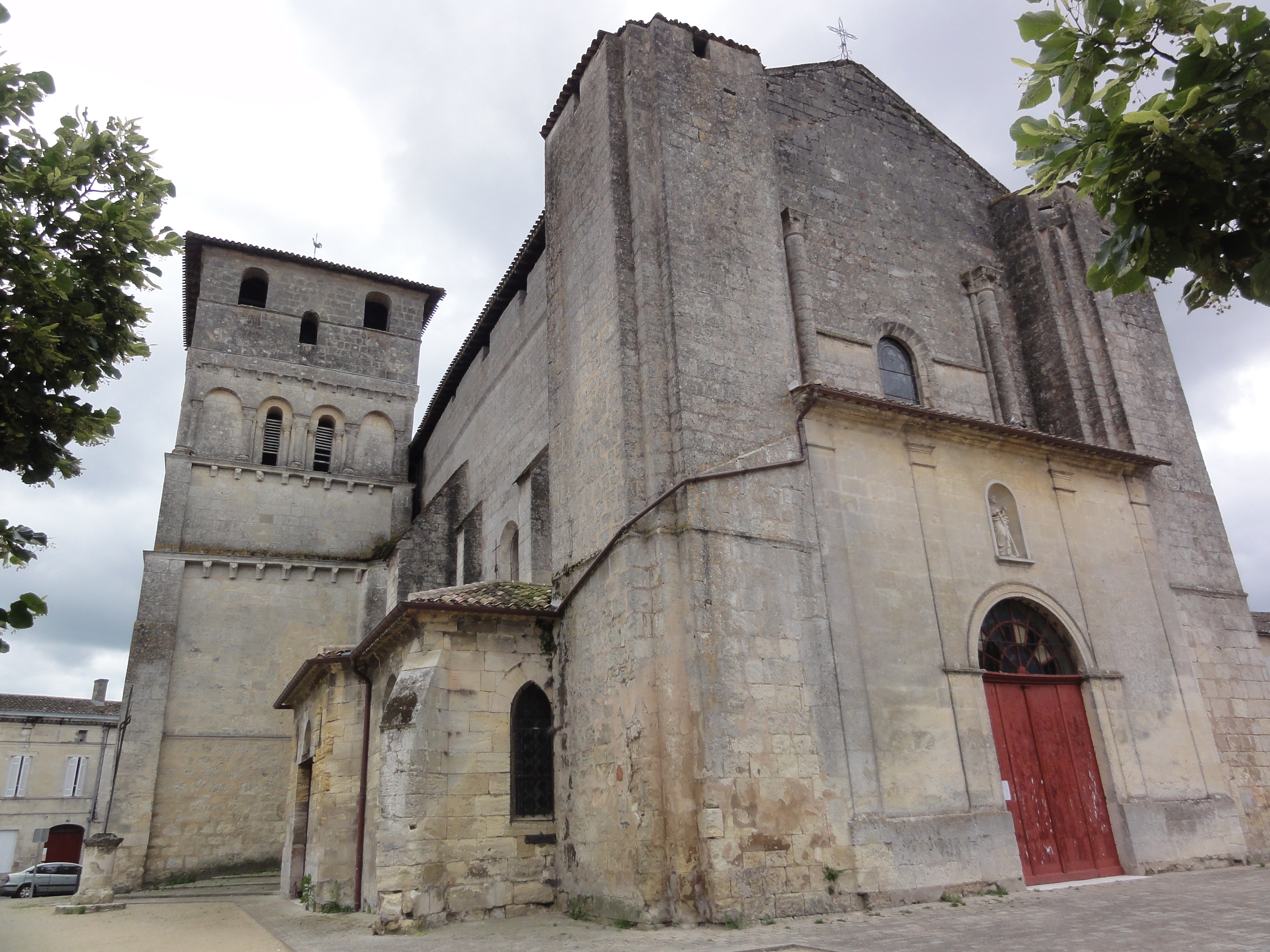 Saint-André-de-Cubzac (Gironde) église